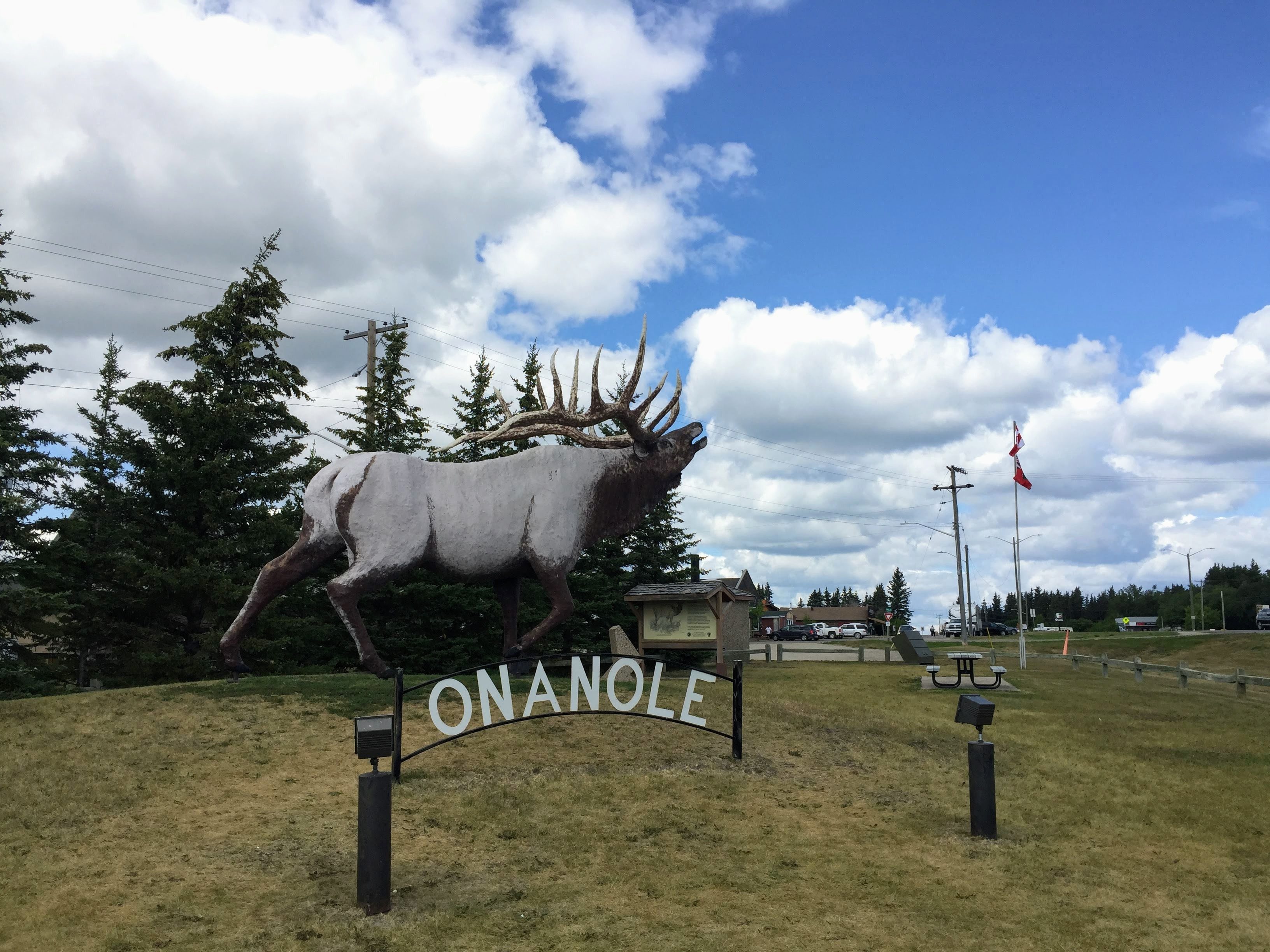 Onanole, 3 kms south of Clear Lake & Riding Mountain National Park, Manitoba, Canada